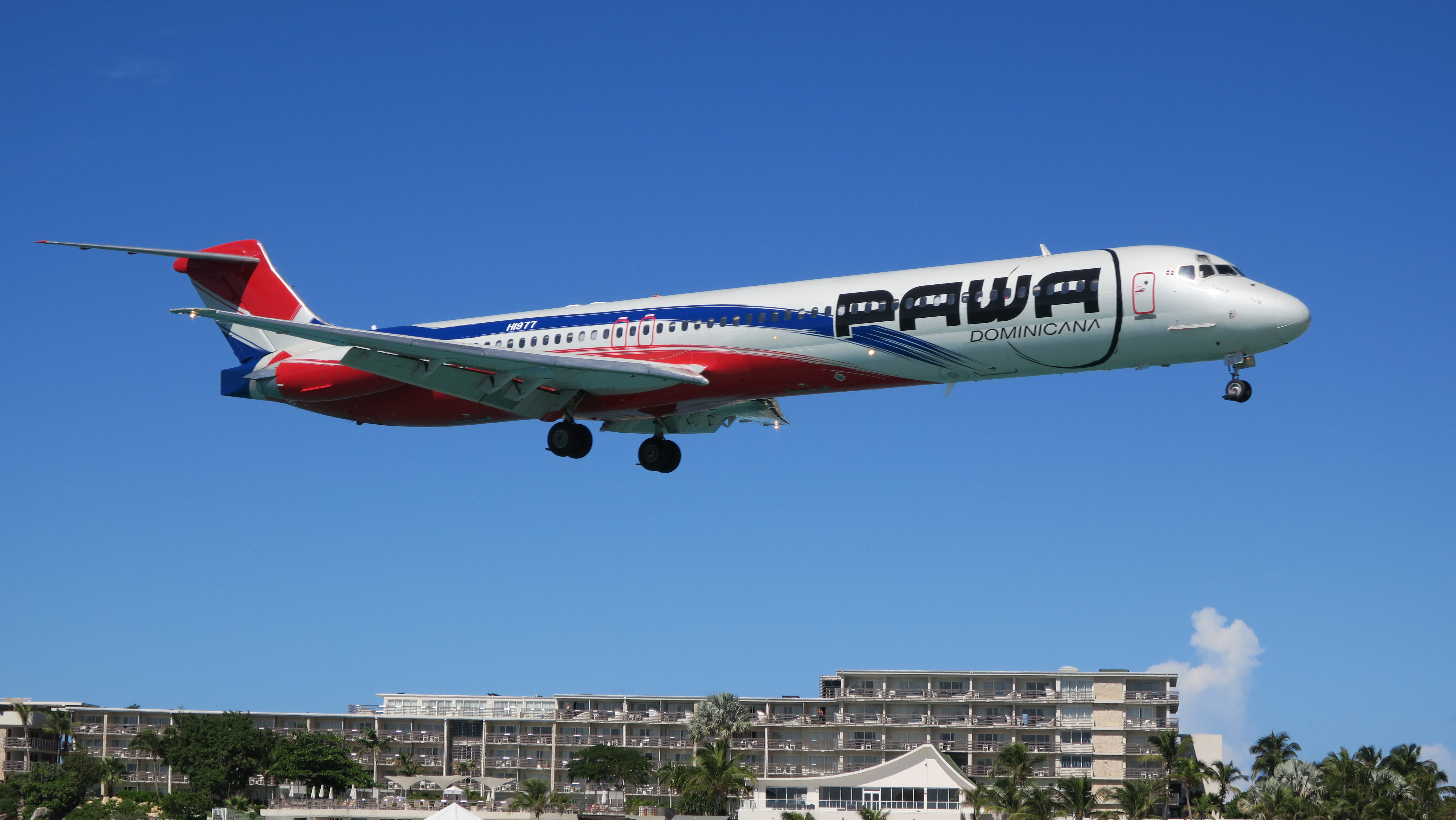 PAWA Dominicana MD-80 on short finals at St Maarten